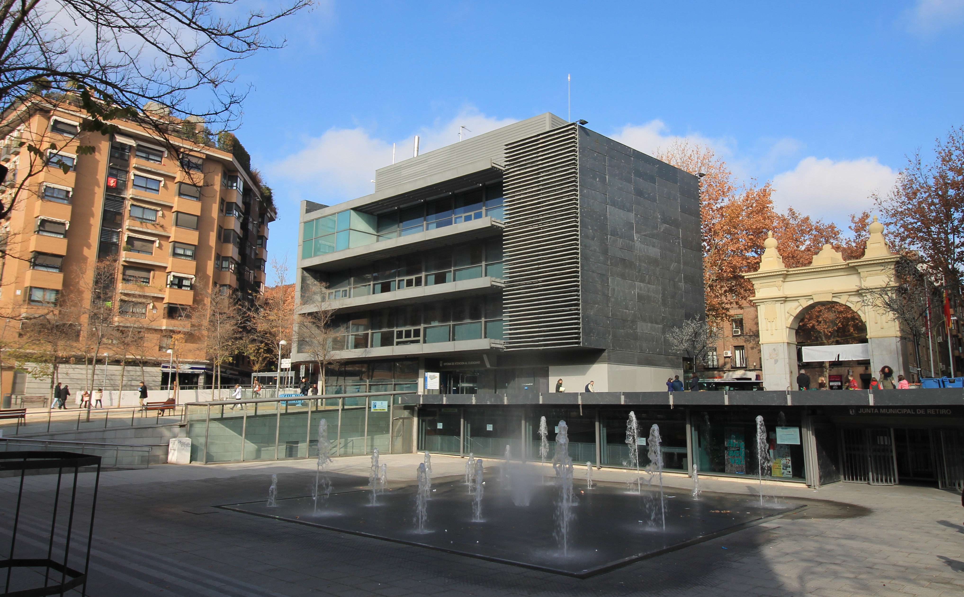 Façade of Retiro District Hall in Madrid (Spain).